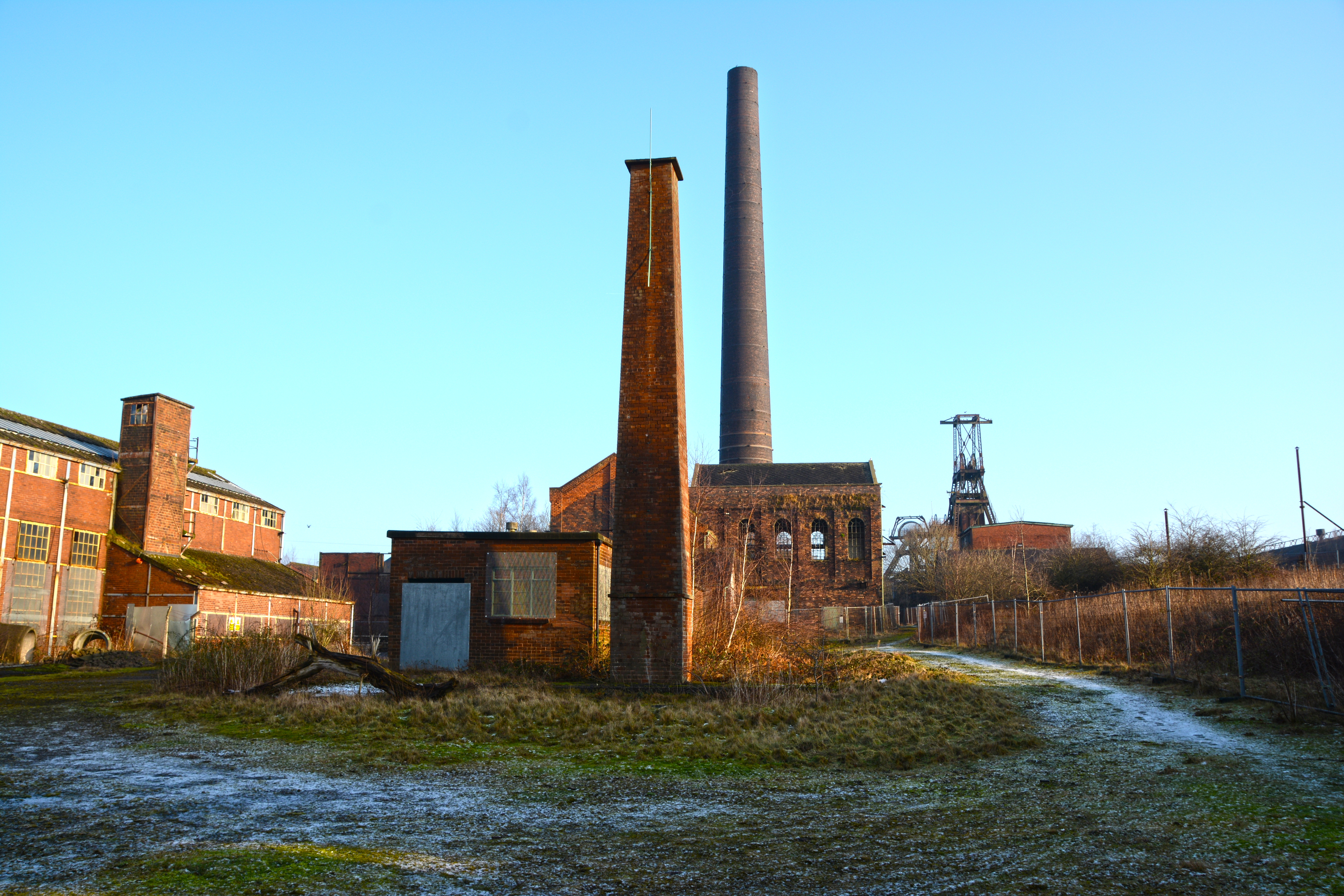 The Methane Store and Winding Towers at Chatterley Whitfield Colliery